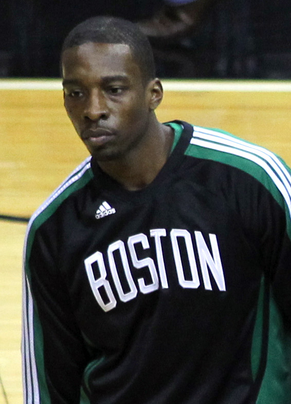 Jeff Green v/s Washington Wizards April 11, 2011